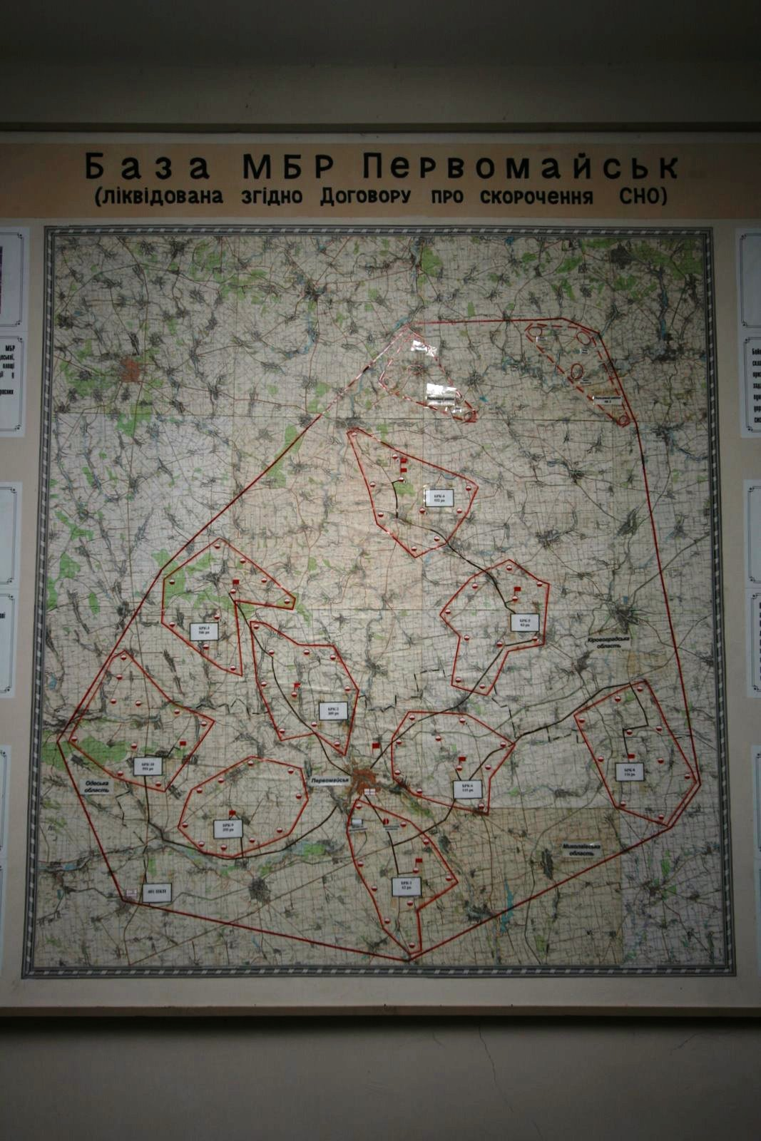 A map of the missile base in Pervomaisk.